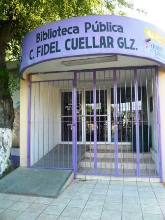 Public Library in Parque Mendoza